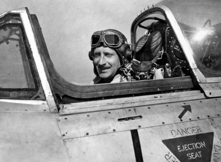 Kimpo, South Korea. 1951-10. Wing Commander Brian A. Eaton, Commanding Officer No. 78 Wing RAAF, Williamtown NSW, in the cockpit of a Meteor aircraft during a visit to No. 77 Squadron RAAF.